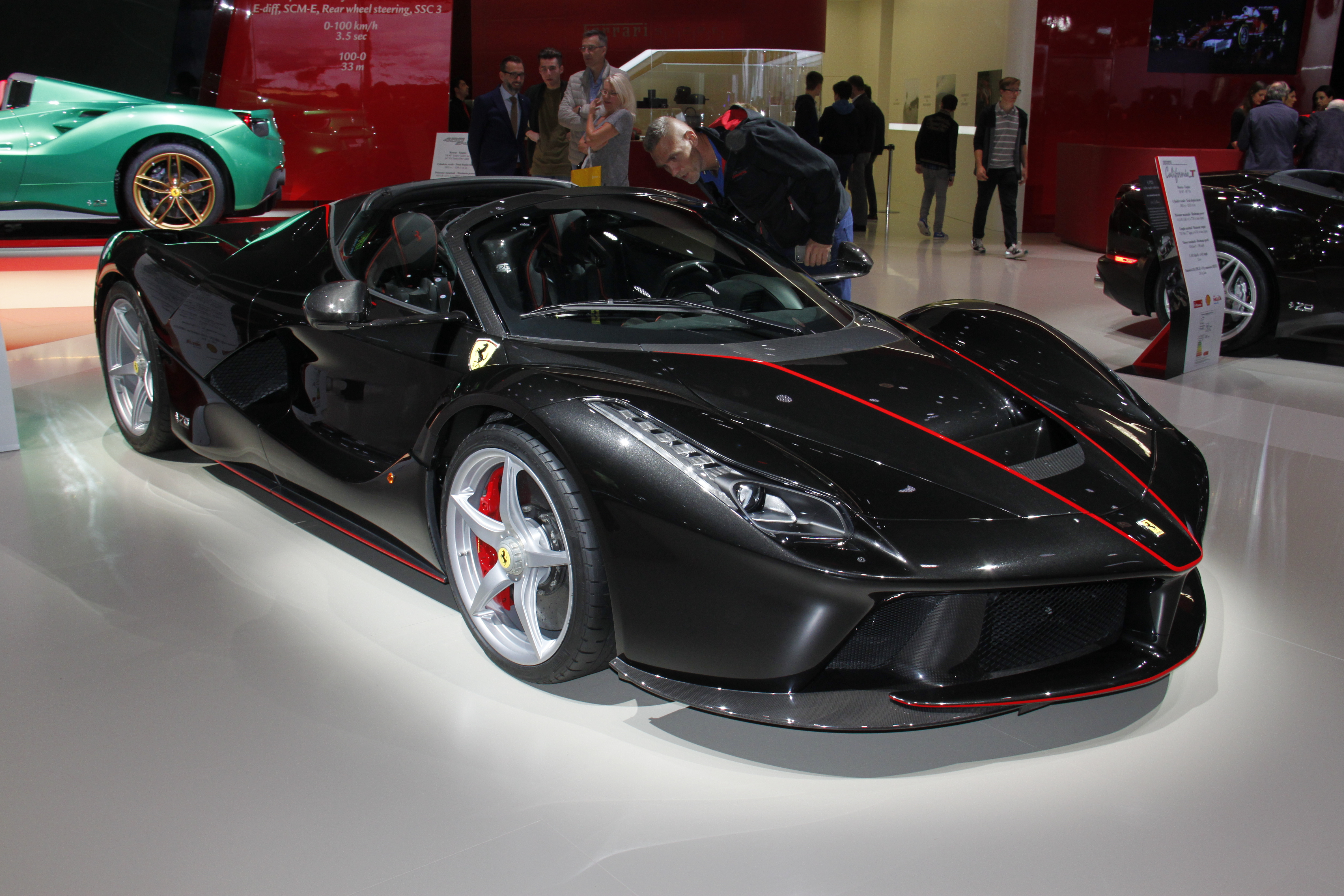 LaFerrari Aperta at the 2016 Paris Motor Show